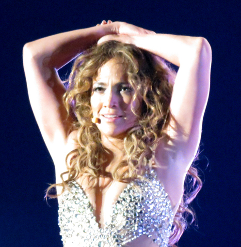 Jennifer Lopez live at the Pop Music Festival in São Paulo, Brazil (June 2012).